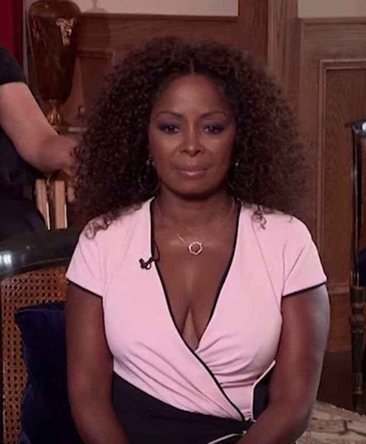 Crystal R. Foxin 2020